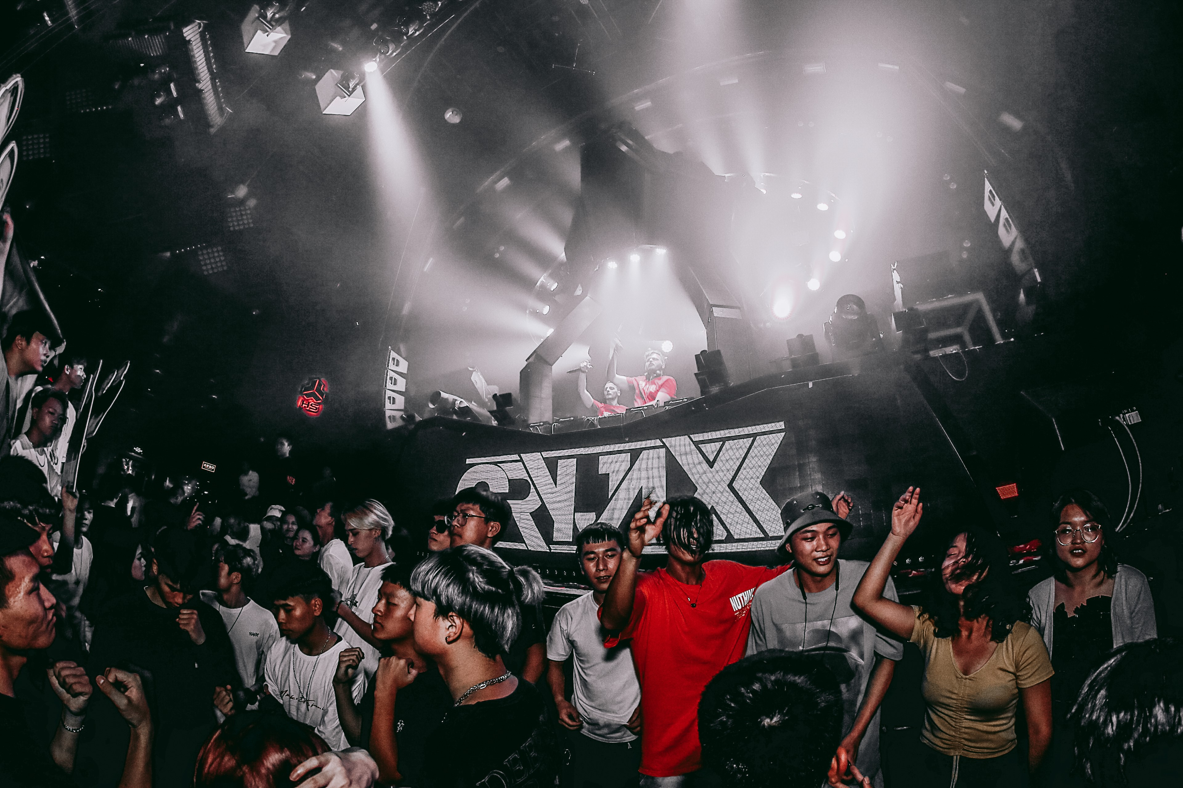 photo of Cryjaxx in China